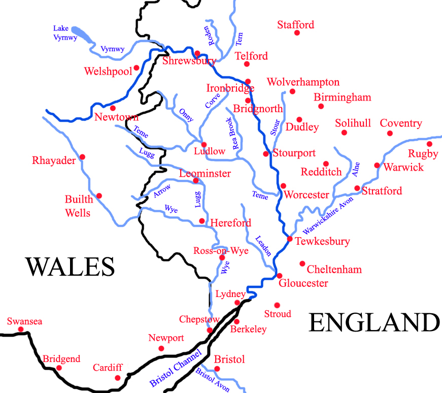 Map of River Severn's watershed, updated version with more Welsh settlements.